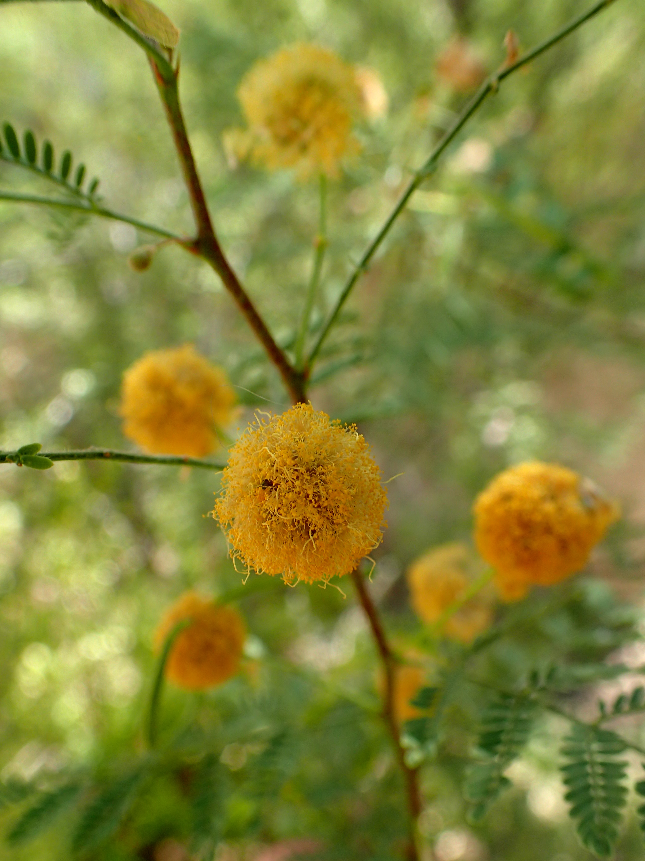 Acacia constricta at Springs Preserve in Las Vegas